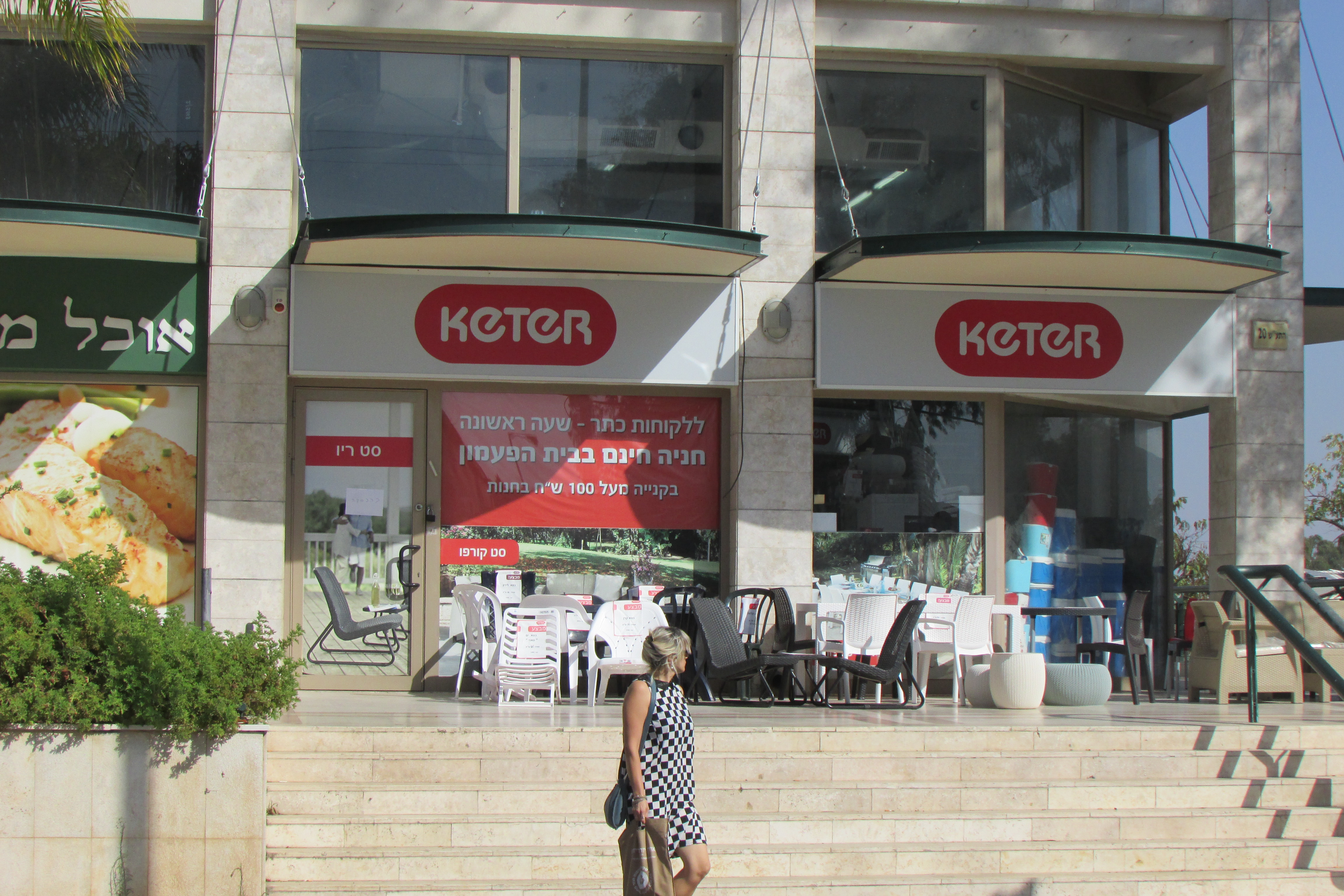 Keter plastic shop in Kfar Saba industrial zone